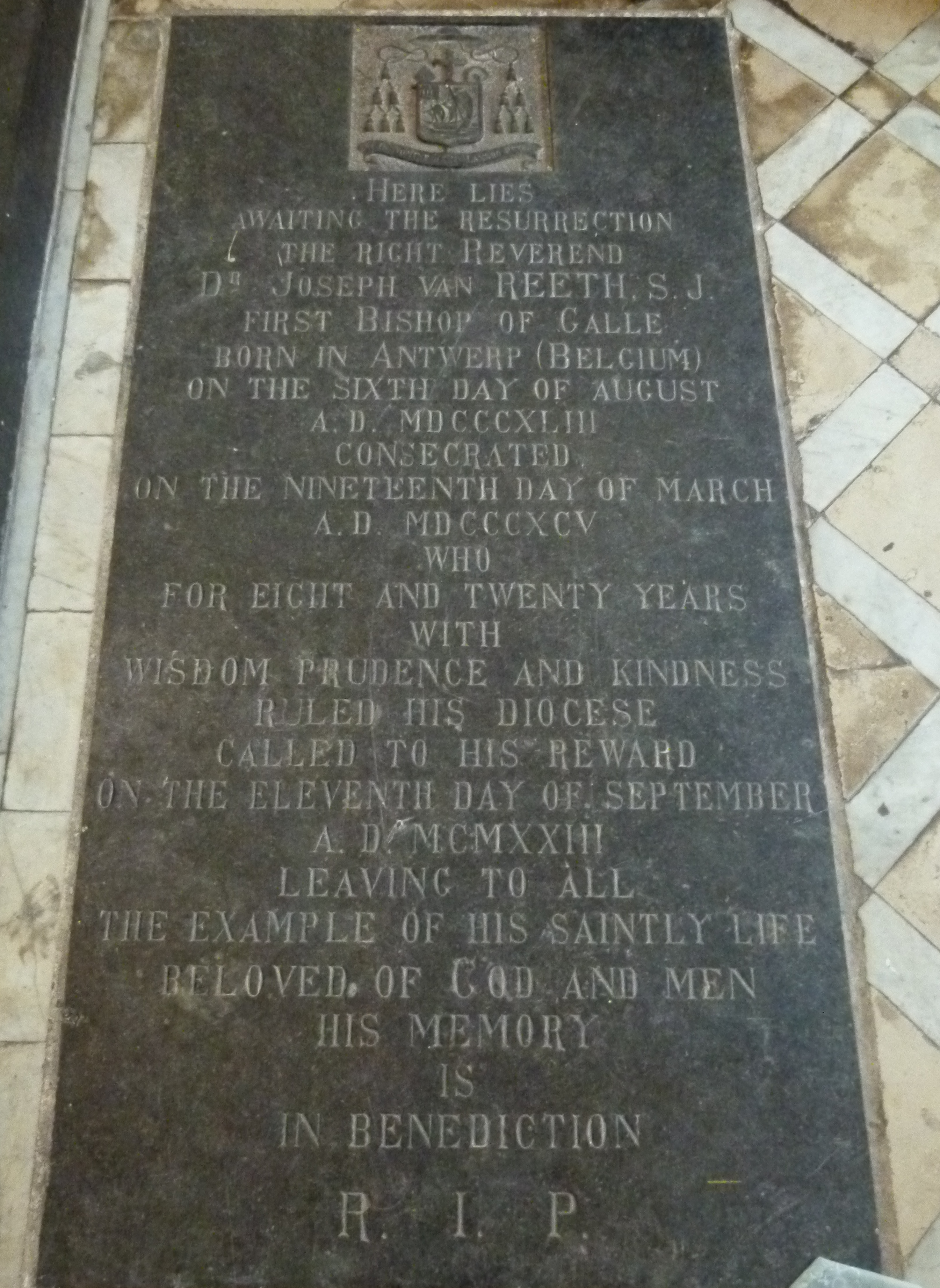 Tombstone of Mgr Joseph Van Reeth in St. Mary's Cathedral, Galle, Sri Lanka